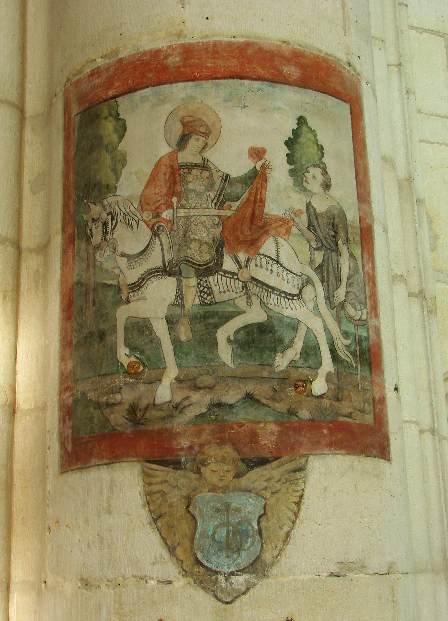 Fresco, 16th century: Saint Martin. Saint-Nicholas basilica, Saint-Nicolas-de-Port, Meurthe-et-Moselle, Lorraine, France.